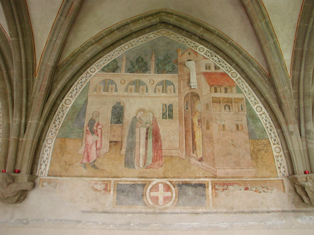 Abondance (Haute-Savoie, Rhône-Alpes, France) : Cloister of the abbey.